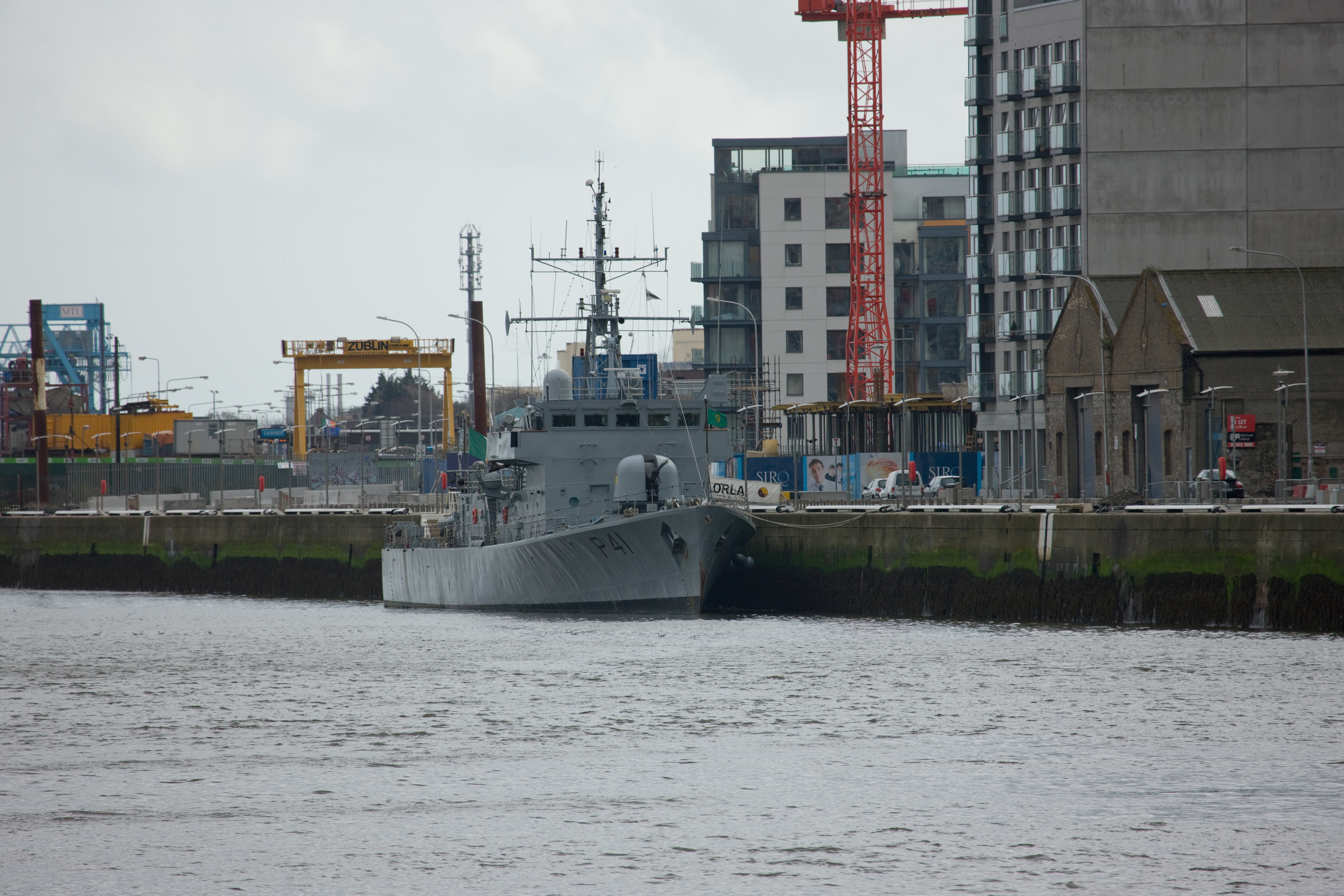 LÉ Orla, a patrol vessel of the Irish Navy, in Dublin